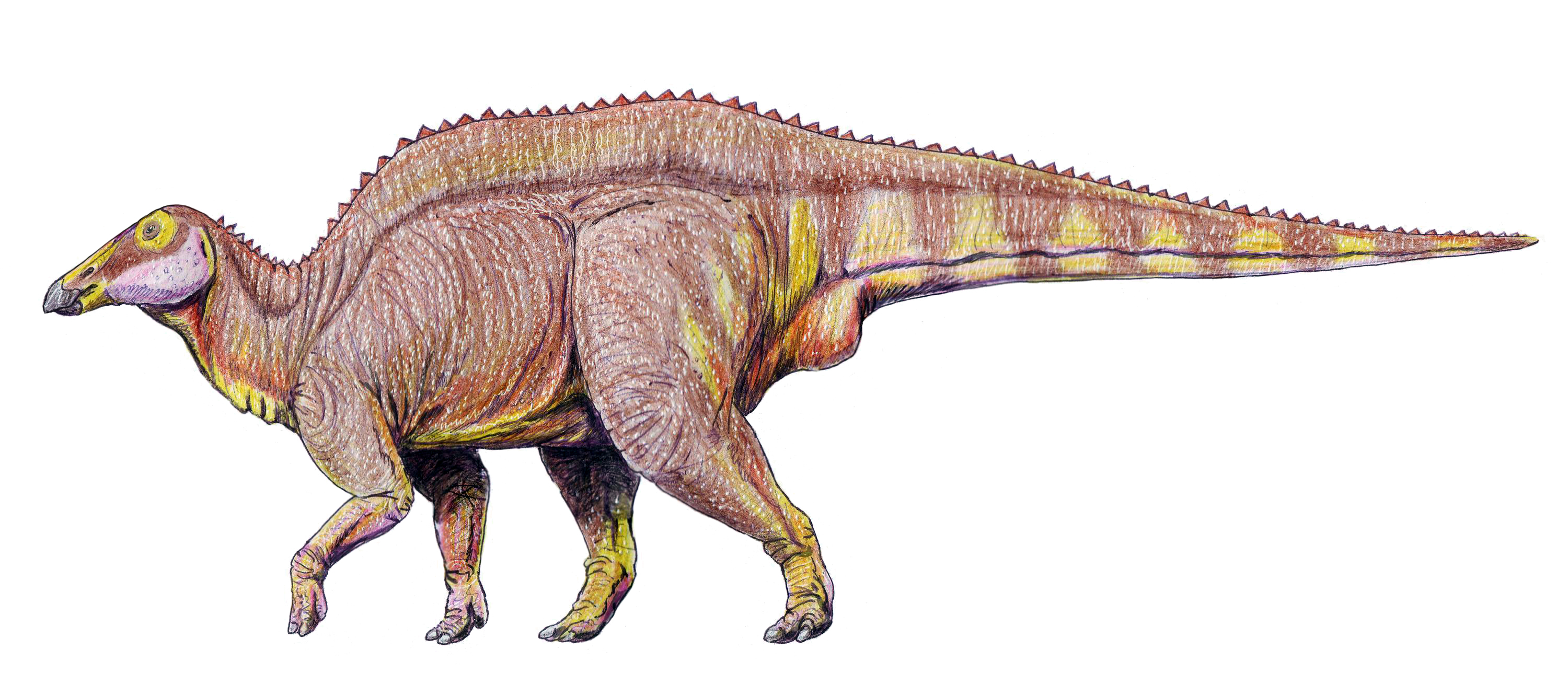 Barsboldia sicinskii - lambeosaurid from early Maastrichtian of Mongolia